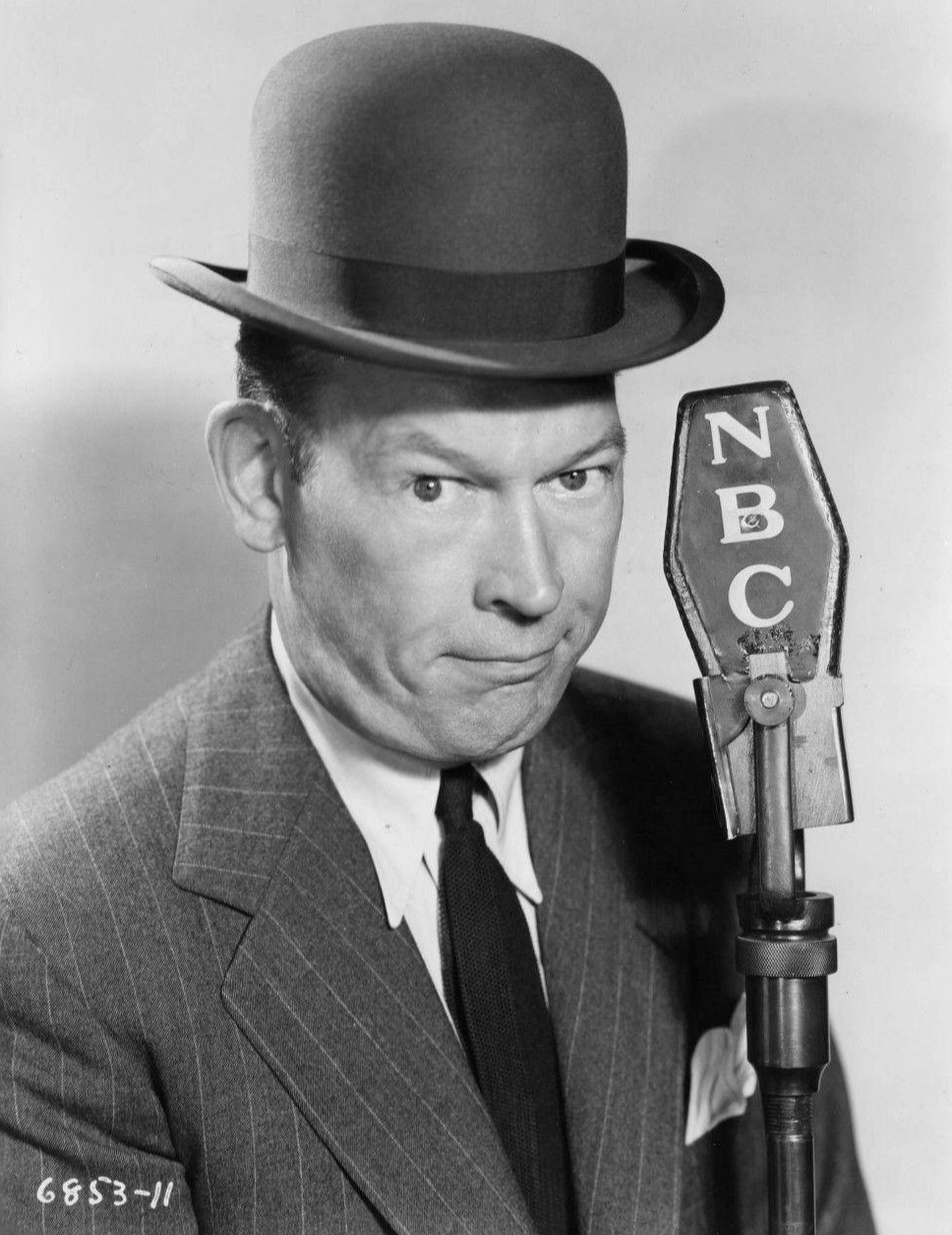 Photo of Fred Allen.